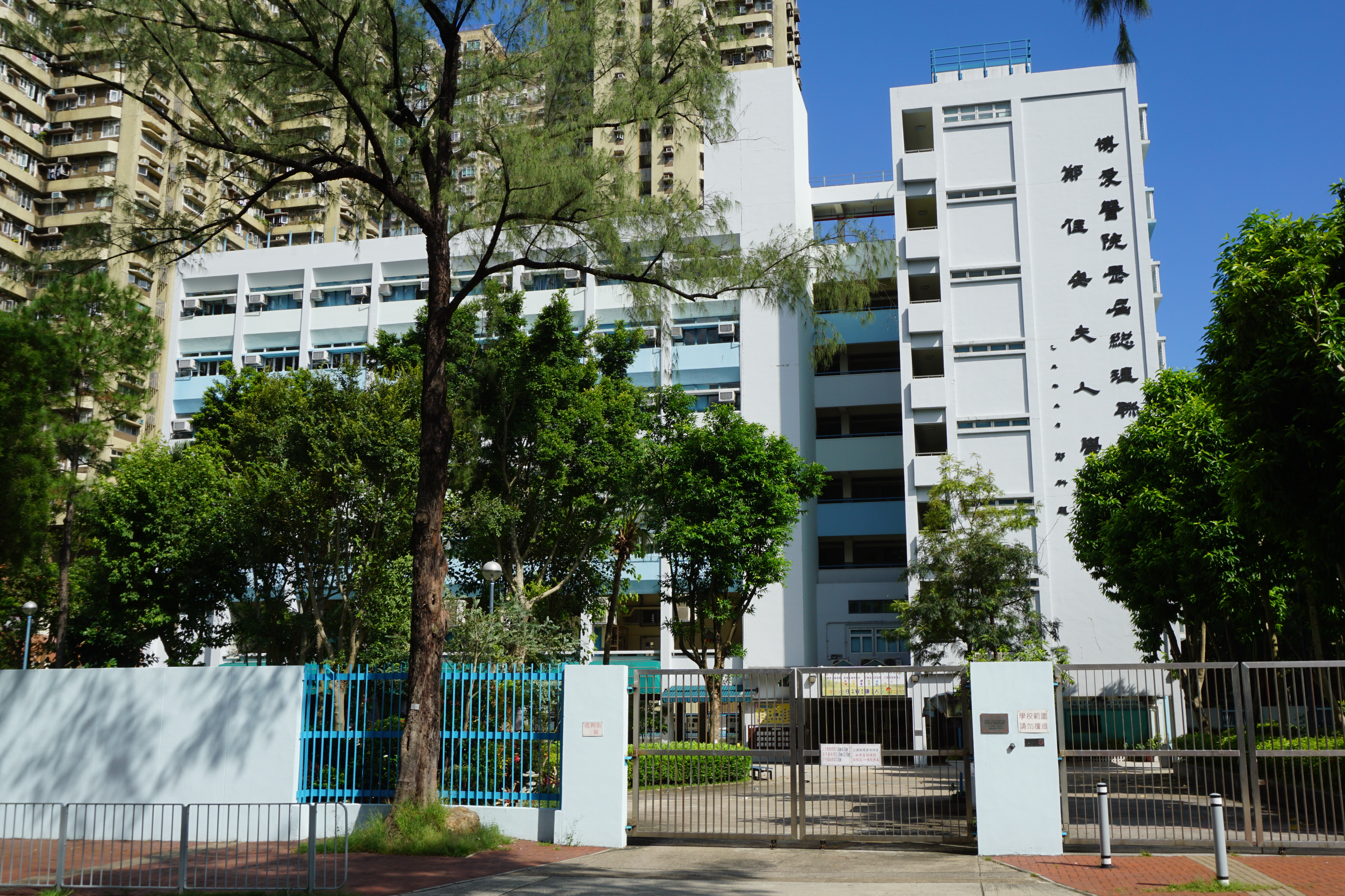 A.D. & F.D. Of Pok Oi Hospital Mrs. Cheng Yam On School in Tuen Mun, Hong Kong.